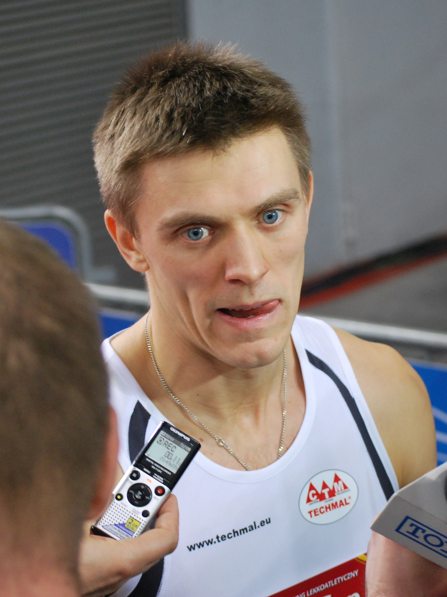 Pedros Cup 2015 Łódź, Dominik Bochenek, hurdler from Poland